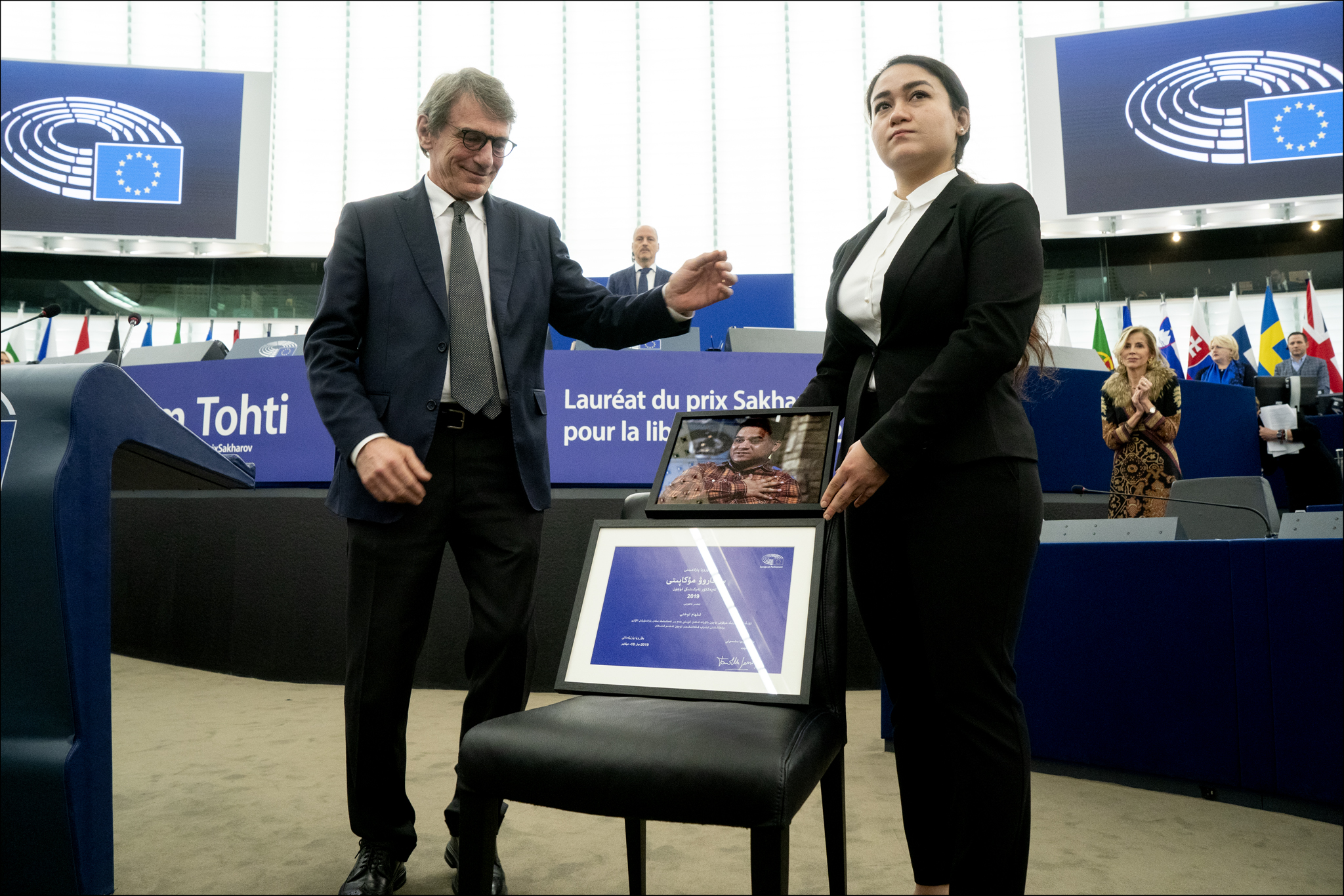 Ilham Tohti's daughter Jewher Ilham accepted the 2019 Sakharov Prize for Freedom of Thought on Wednesday on behalf of her jailed father. Ilham Tohti, a Uyghur scholar fighting for the rights of China’s Muslim Uyghur minority, has been in jail since 2014 on separatism-related charges. Presenting the award, Parlimaent President David Sassoli said: “Ilham Tohti, with his activism, managed to give a voice to the Uyghurs. [...] He has been working for 20 years to promote dialogue and mutual understanding between them and other Chinese people. "Today should be a moment of joy, to celebrate freedom of speech. Instead, it is a day of sadness. Once again, this chair is empty, because in the world we are living, exercising our freedom of thought does not always mean being free." Read more: This photo is free to use under Creative Commons license CC-BY-4.0 and must be credited: "CC-BY-4.0: © European Union 2019 – Source: EP". No model release form if applicable. For bigger HR files please contact: webcom-flickr(AT)